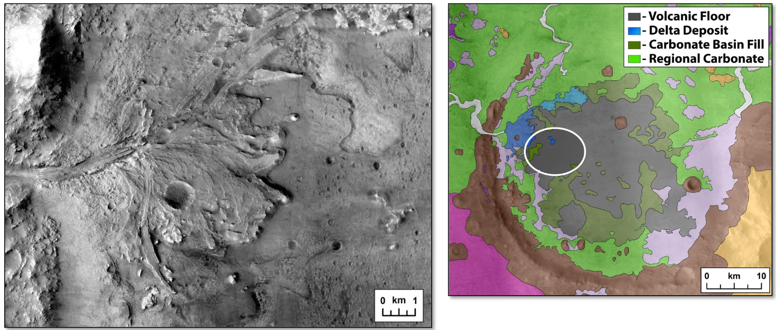 NASA Mars 2020 rover : Jezero-crater